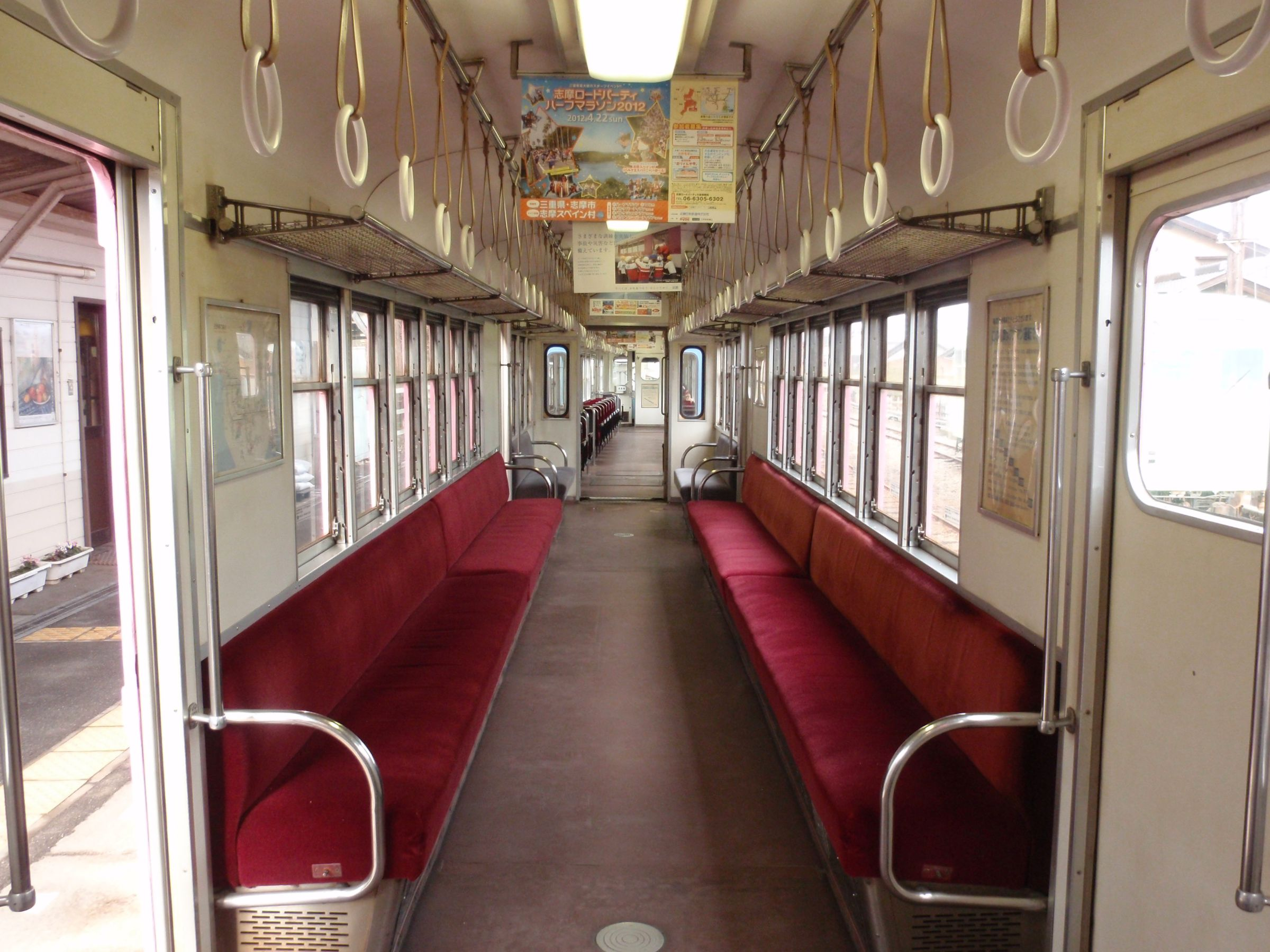 Inside of Kintetsu 123